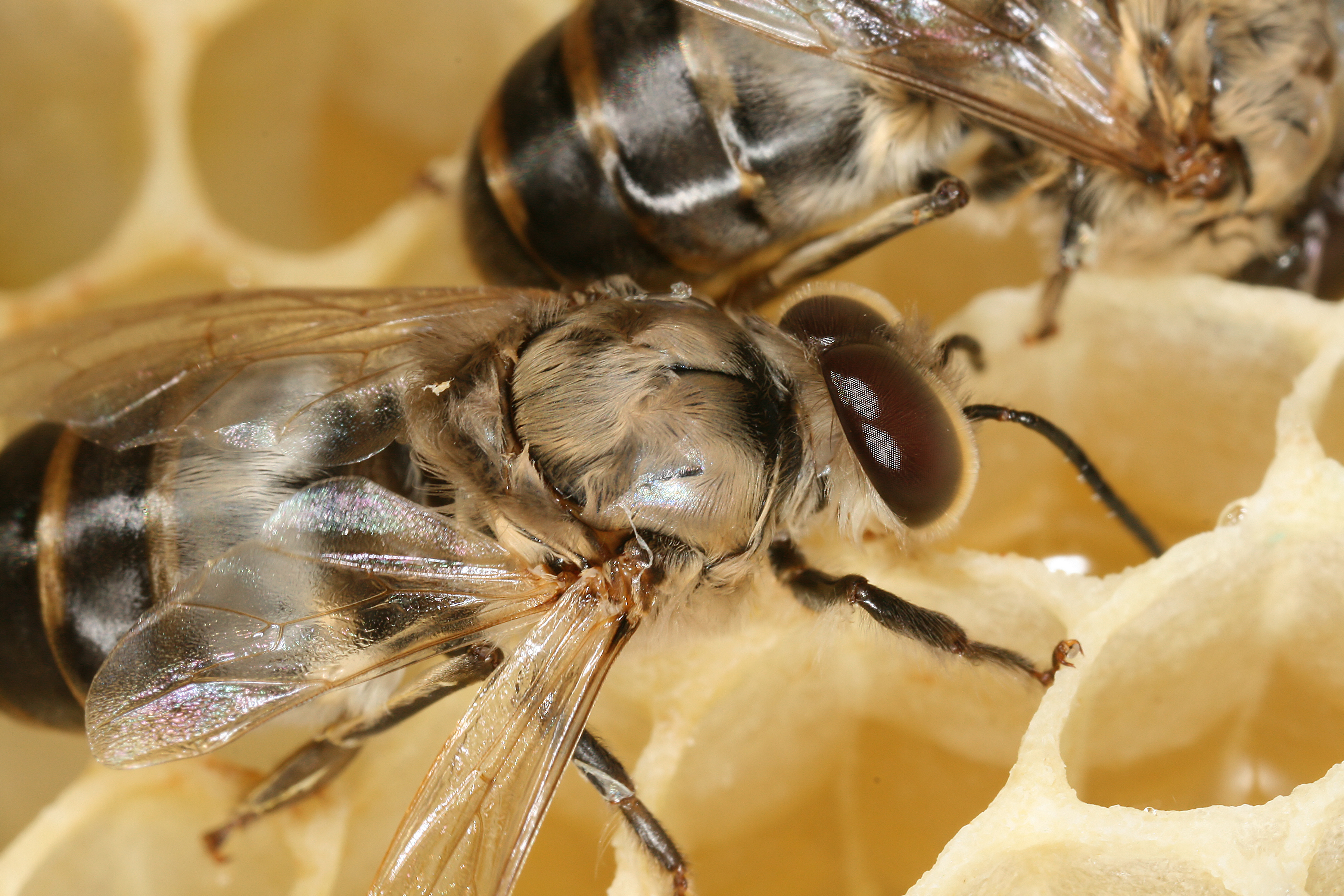 Description: The Carniolan honey bee (Apis mellifera carnica) is a subspecies of Western honey bee. It originates from Slovenia, but can now be found also in Austria, part of Hungary, Romania, Croatia, Bosnia and Herzegovina, and Serbia.